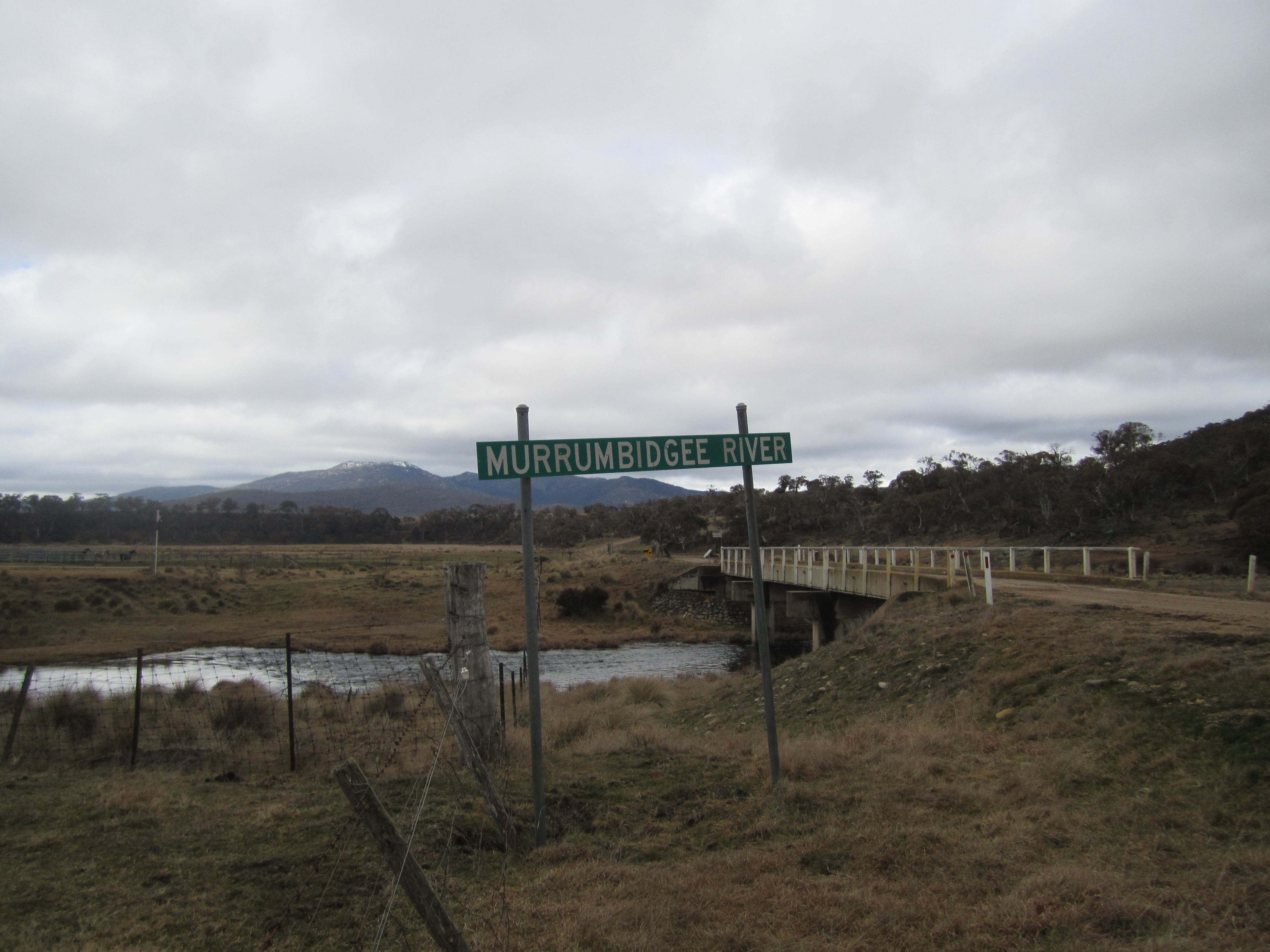 Murrumbidgee River at Yaouk, NSW, Australia, Winter 2010, mid-late afternoon, looking north-west; overcast-rainy day